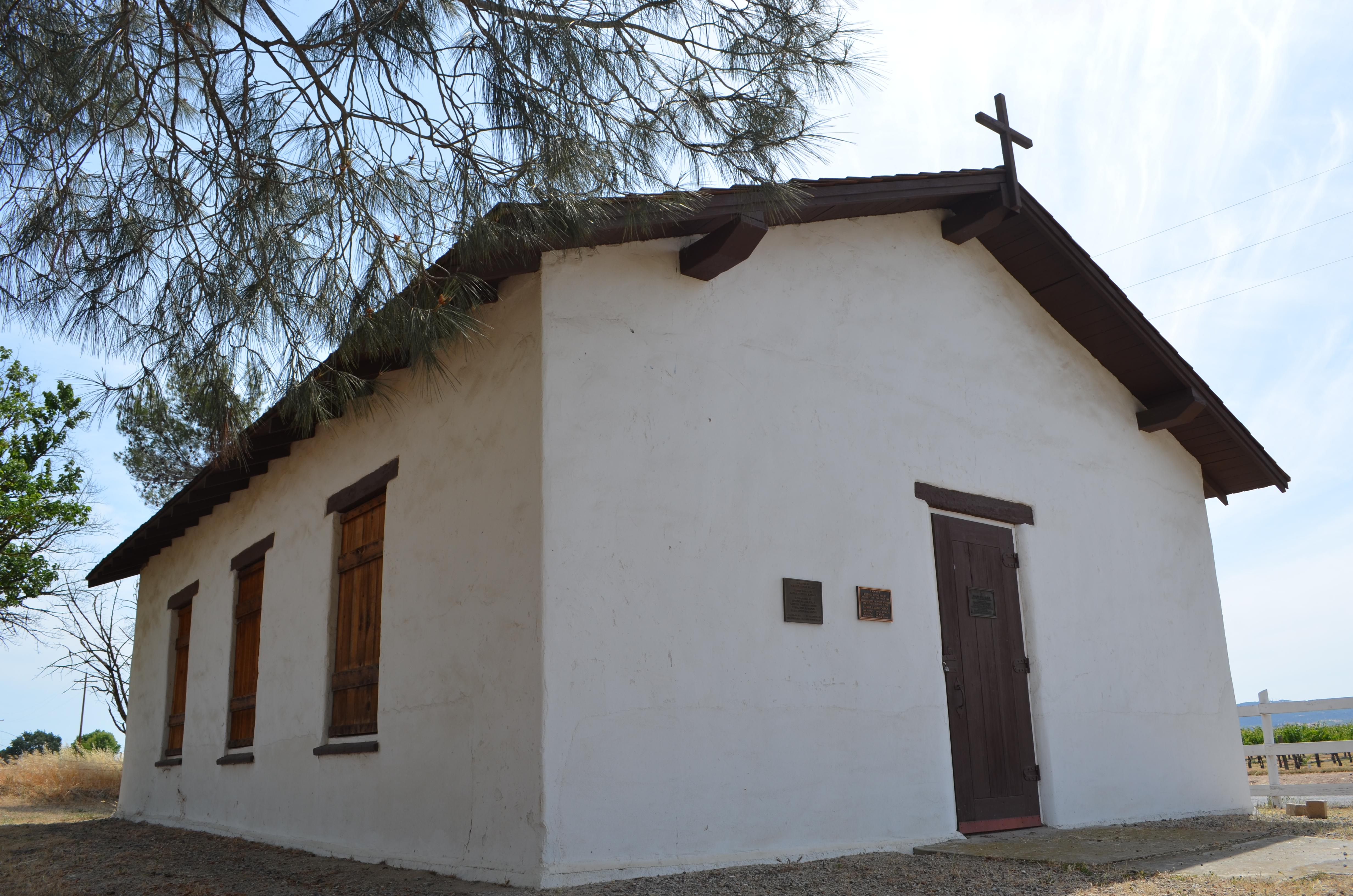 California Registered Historical Landmark No. 542 First Protestant church in northern San Luis Obispo county; built 1879